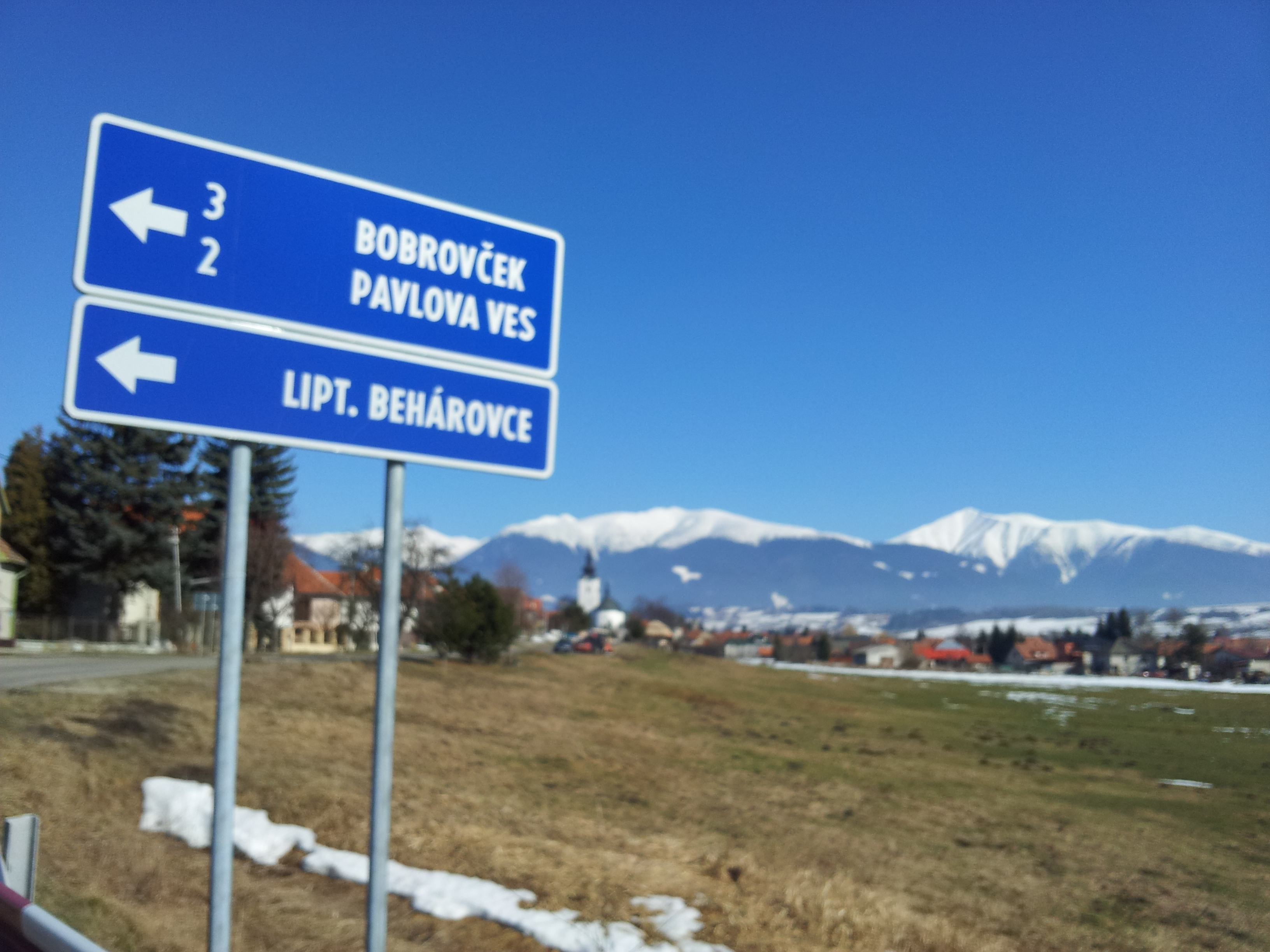 On the way from Liptovsky Mikulas to Bobrovec, you will see the direction